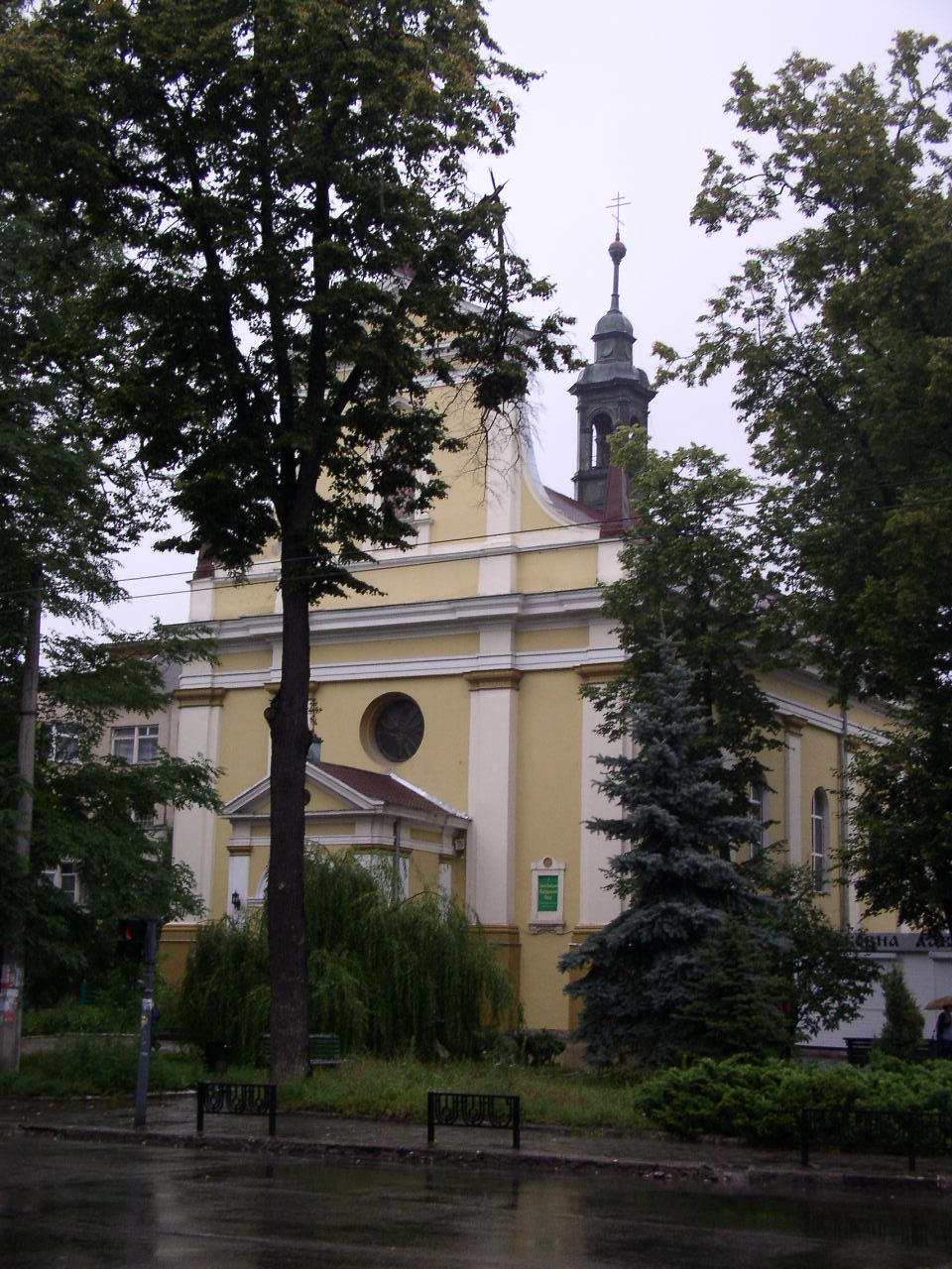 Jesuit church. Ivano-Frankivsk, Ukraine.